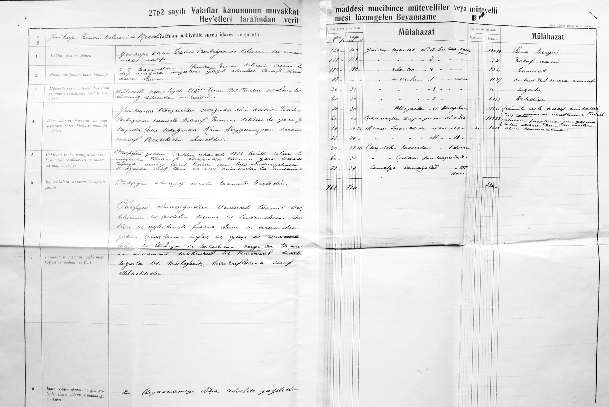 1936 declaration of Surp Tateos Partogimeos Armenian Church and Hayganushyan School Foundation